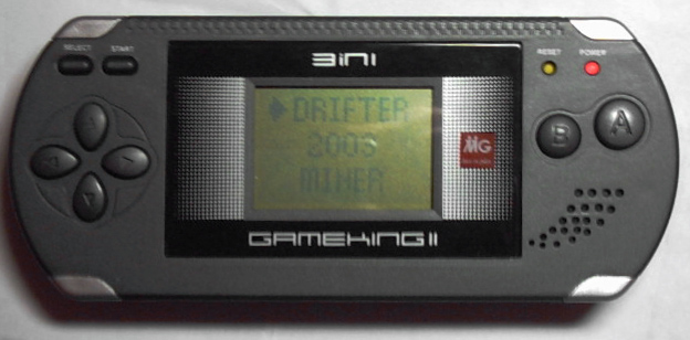 A photo of the GameKing II console, with the selection menu active.